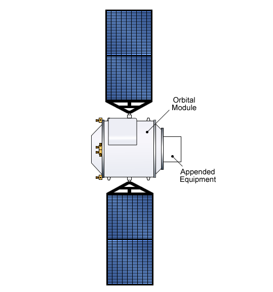 Diagram illustrates the old (before S8) Shenzhou spacecraft's OM.